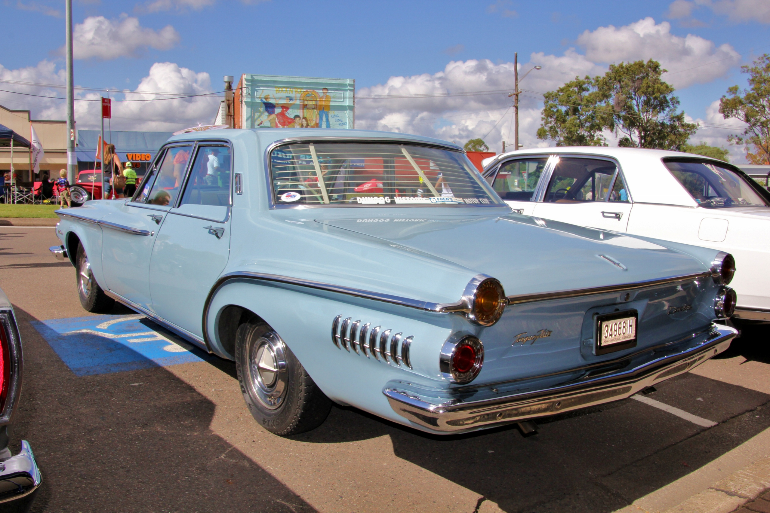 1962 Dodge SD2 Phoenix sedan. Taken at the 2012 Kurri Kurri Nostalgia Festival, held in Kurri Kurri, New South Wales.